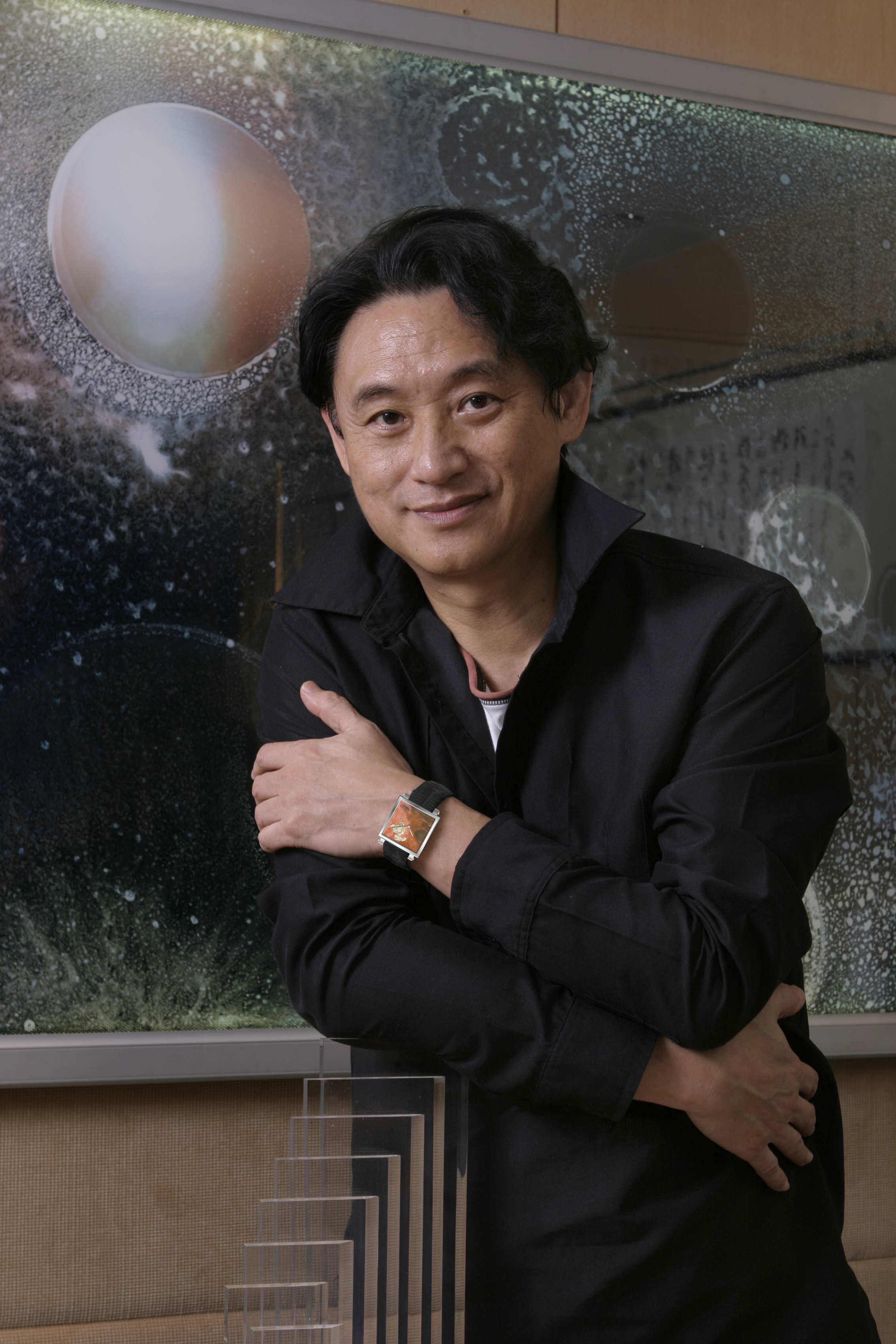 Dr. Lam's single